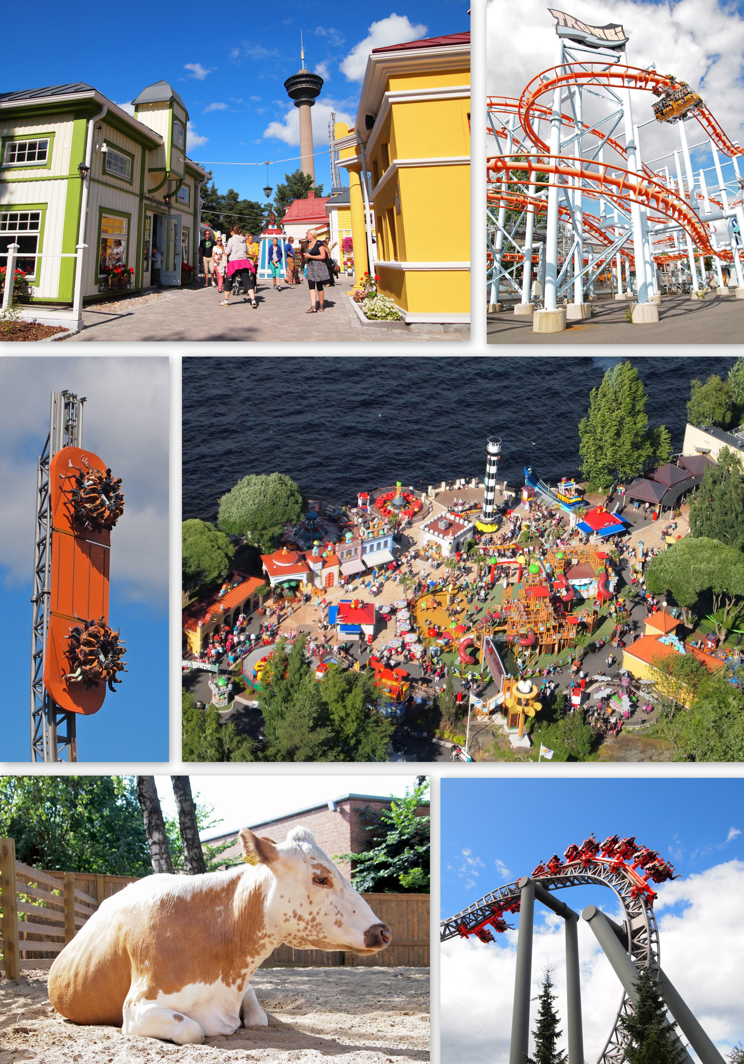 Collage of the pictures taken on 17 July 2013 in Särkänniemi park area, Tampere. First row: Doghill park and Näsinneula tower & Trombi ride. Second row: Half Pipe ride & Angry Birds Land. Third row: Cow in Doghill & Tornado ride.